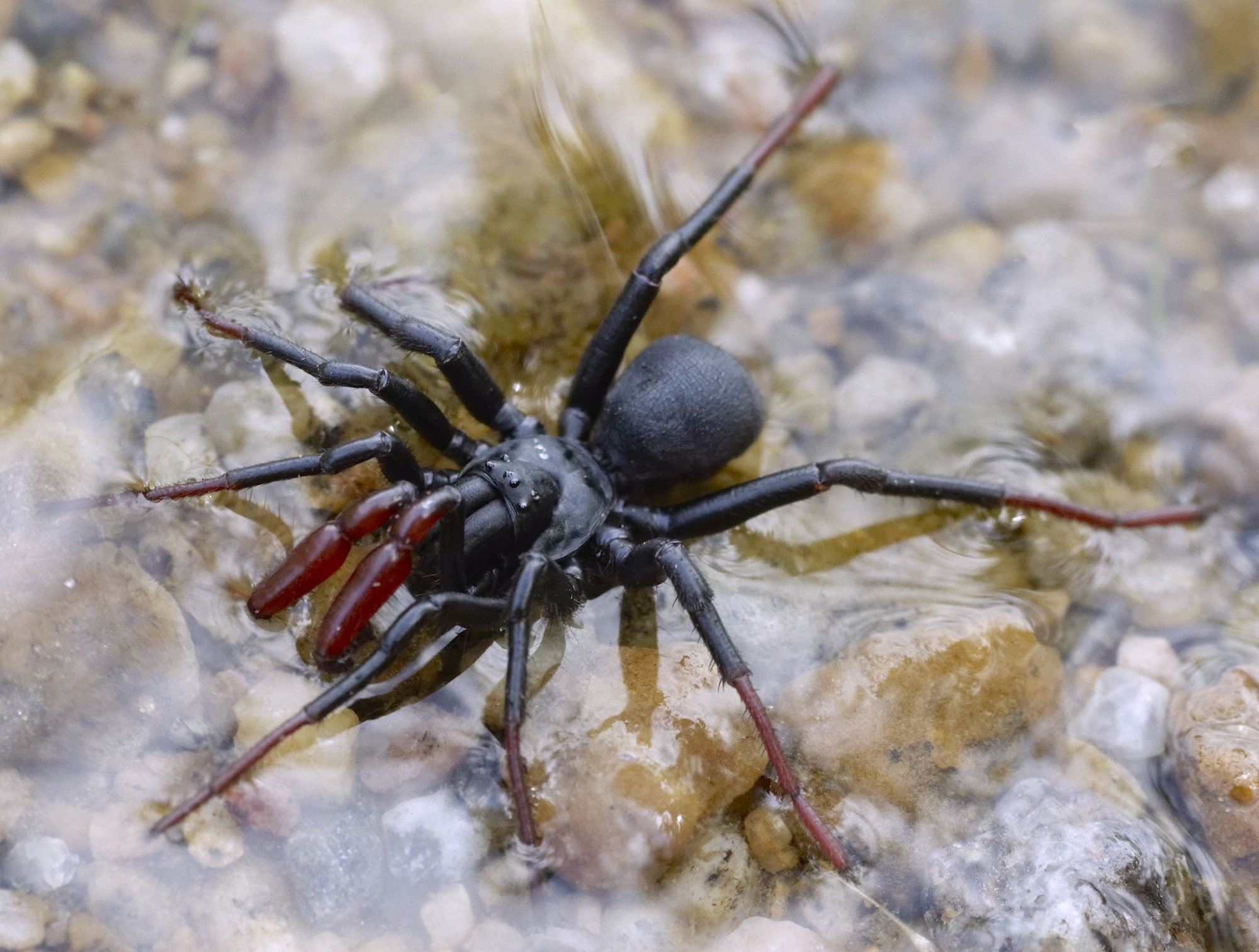 Male Actinopus sp. floating on a thin film of water in a side channel of Rio Lujan